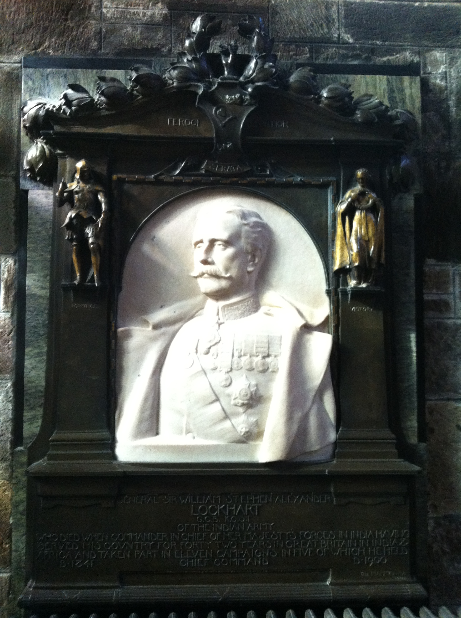 Sir William Lockhart memorial, St Giles Cathedral, Edinburgh